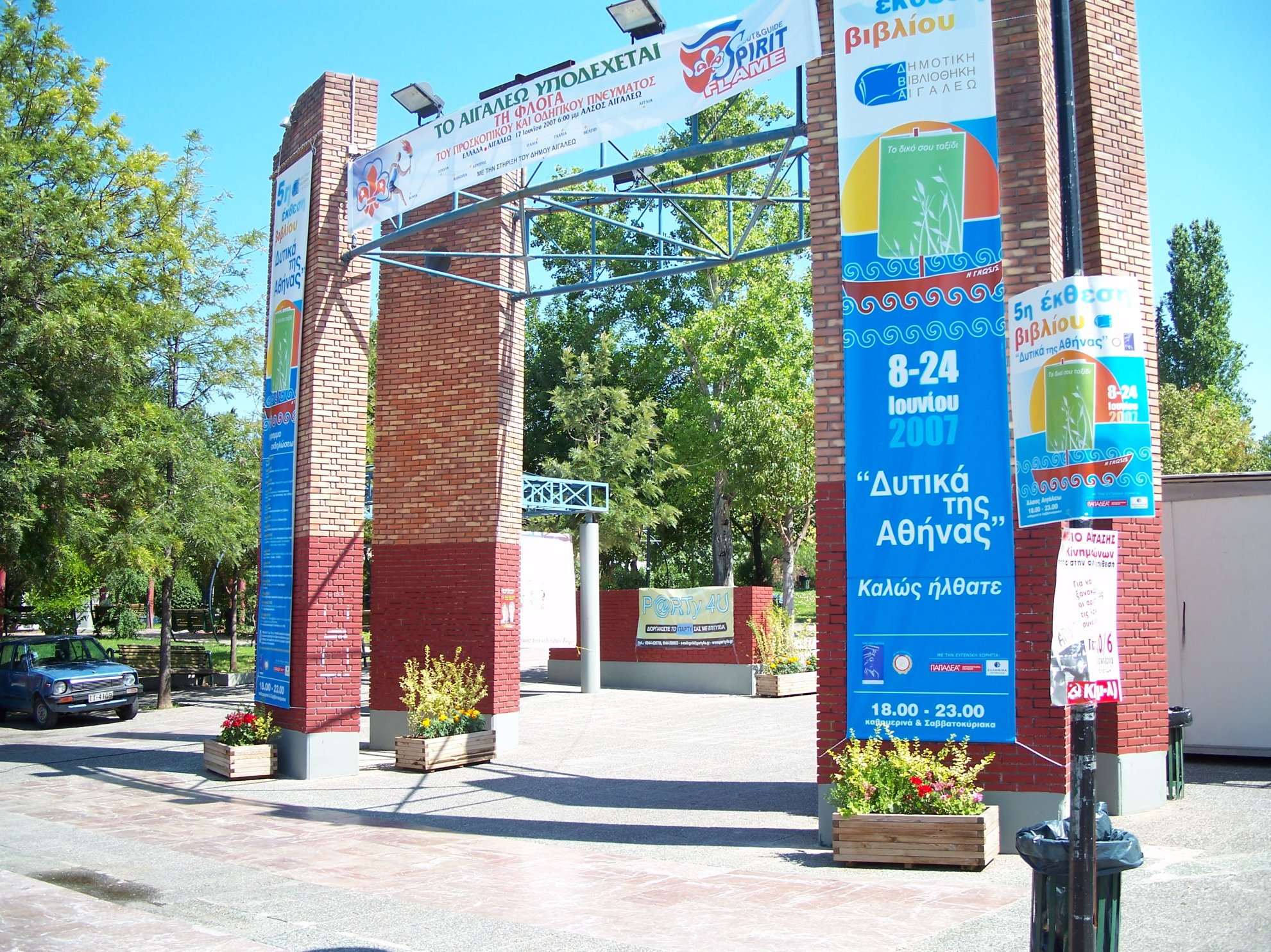 Entrance of the annual book exhibition at Egaleo, Athens.